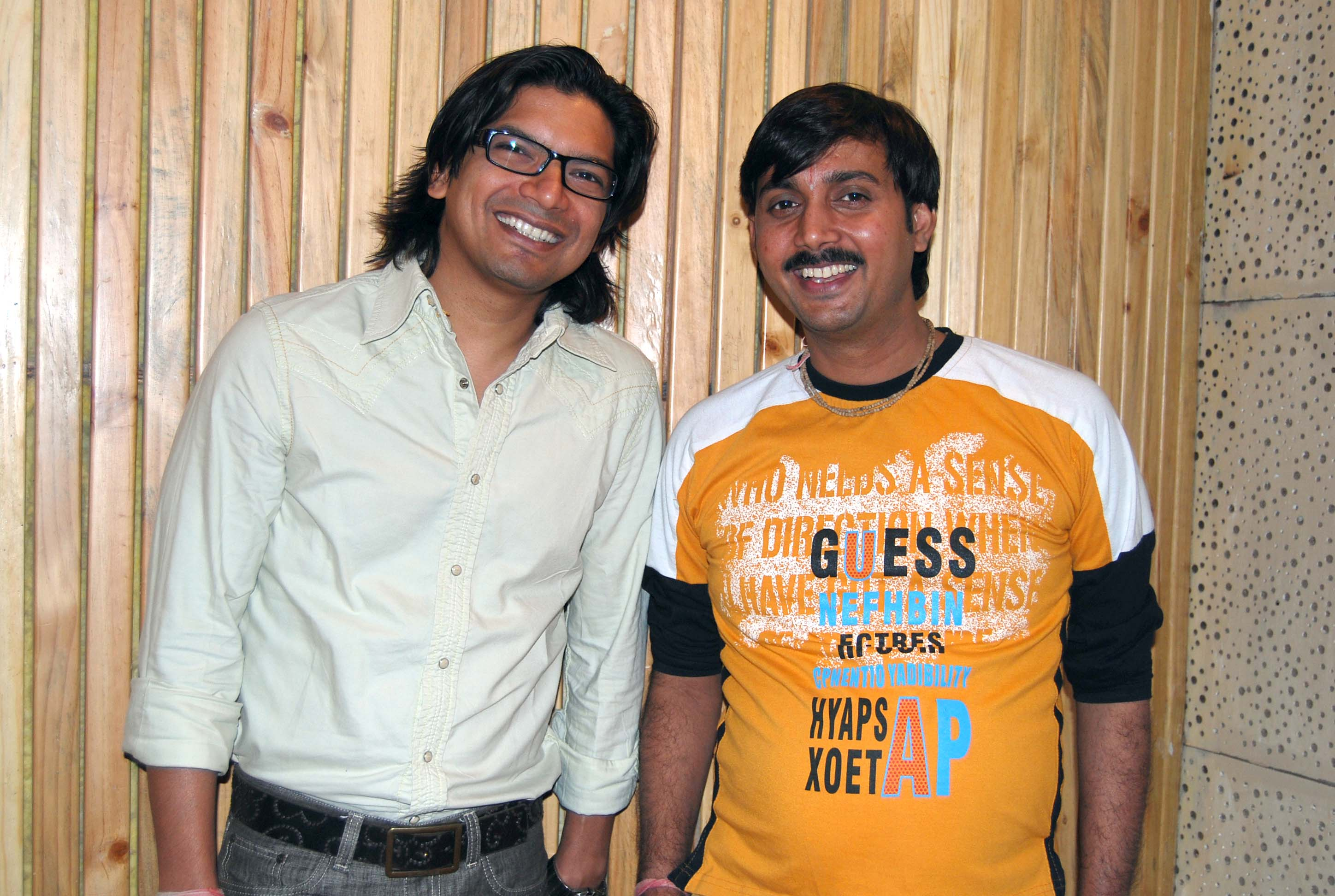 Vishnu Mishra singer